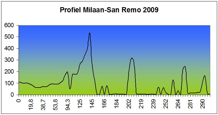 Stage altitude map of Milan-San Remo 2009